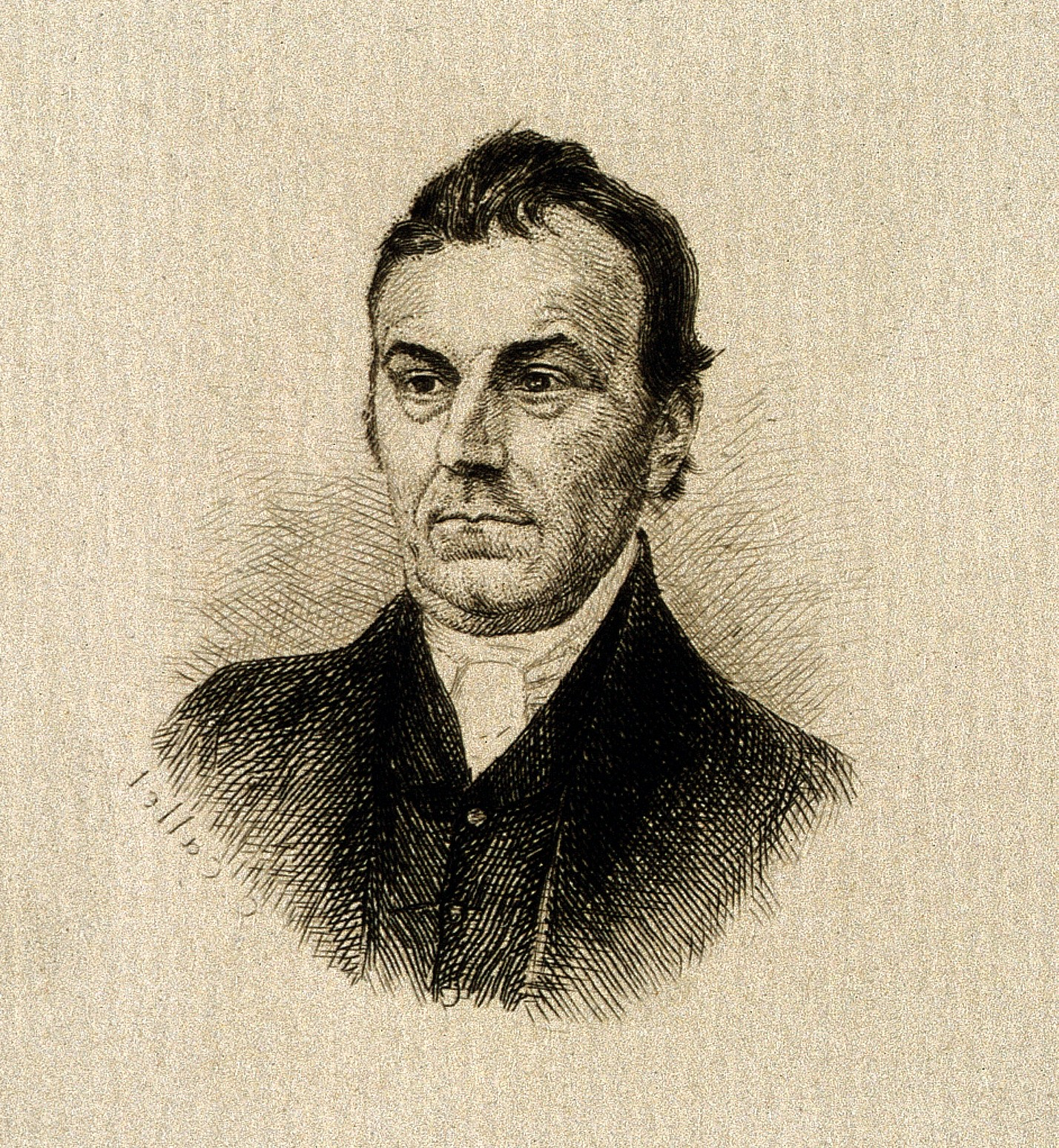 Samuel Tuke. Etching by C. Callet. Iconographic Collections Keywords: portrait prints; etchings; Samuel Tuke